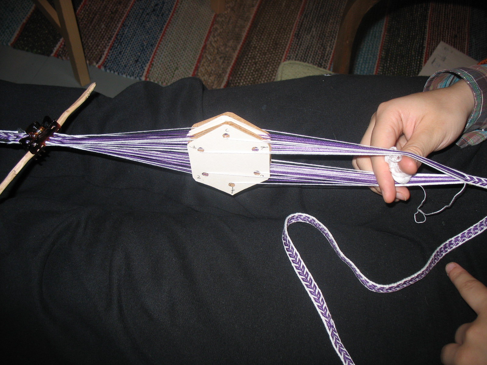 Lautanauha weft